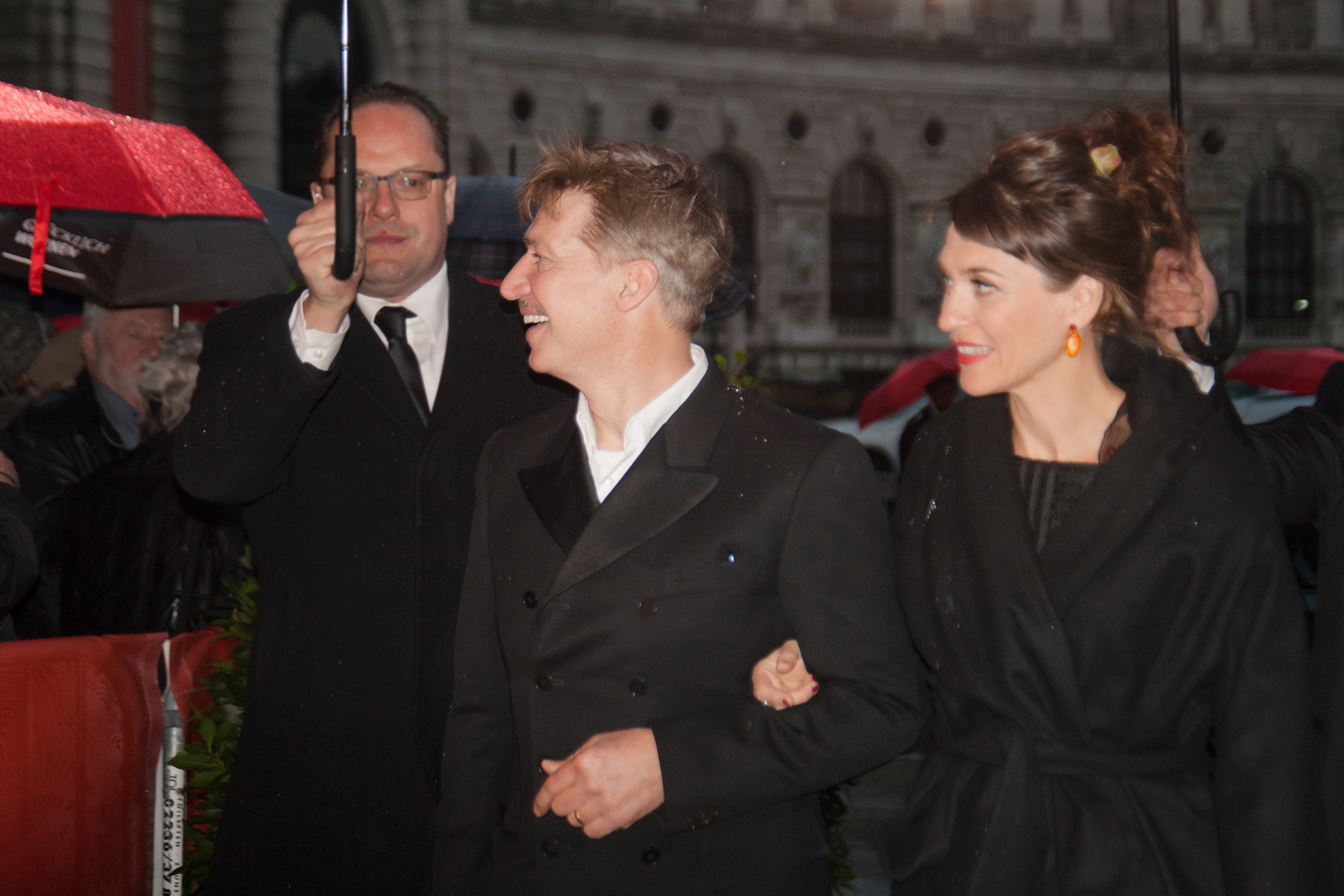 Julia and Tobias Moretti on the red carpet of the Romy TV awards 2017 at Hofburg Palace in Vienna, Austria.